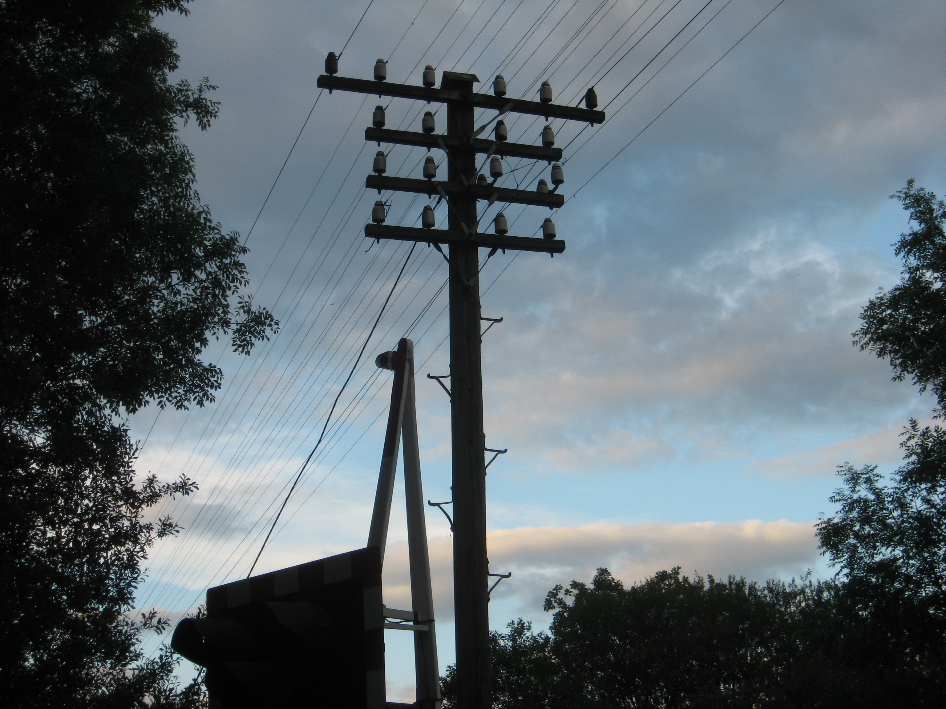 A telegraph pole on the now decommisioned Pole Route on the Norwich-Ely Railway line, Norfolk, UK. This was the last such remaining section in England and was removed during March 2009. The Photo here was taken at Hargham's No.1 AHB Crossing North of Quidenham (Eccles Road).